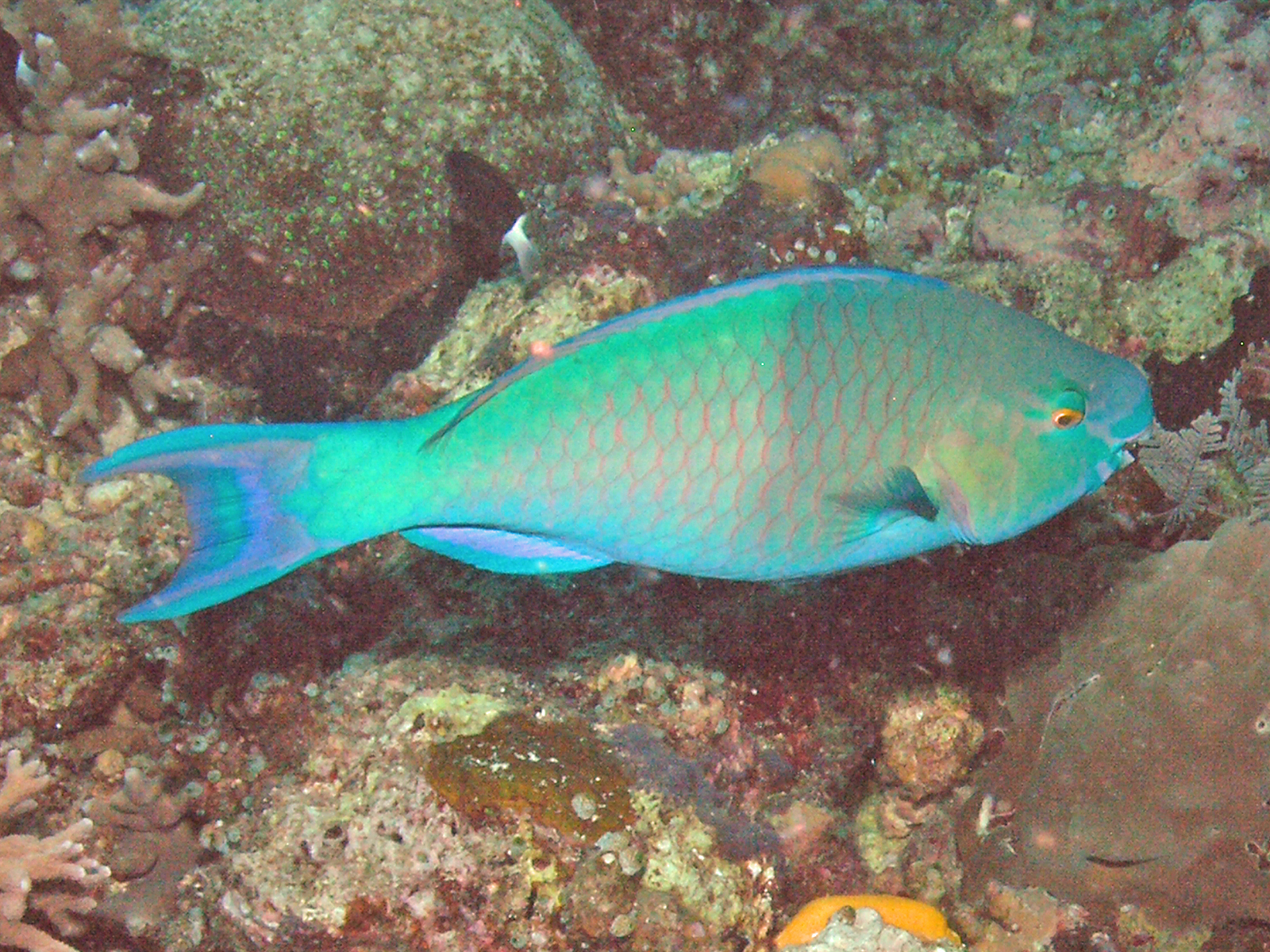 Greenhead Parrotfish (Chlorurus troschelii) at Bunaken Marine Park, North Sulawesi